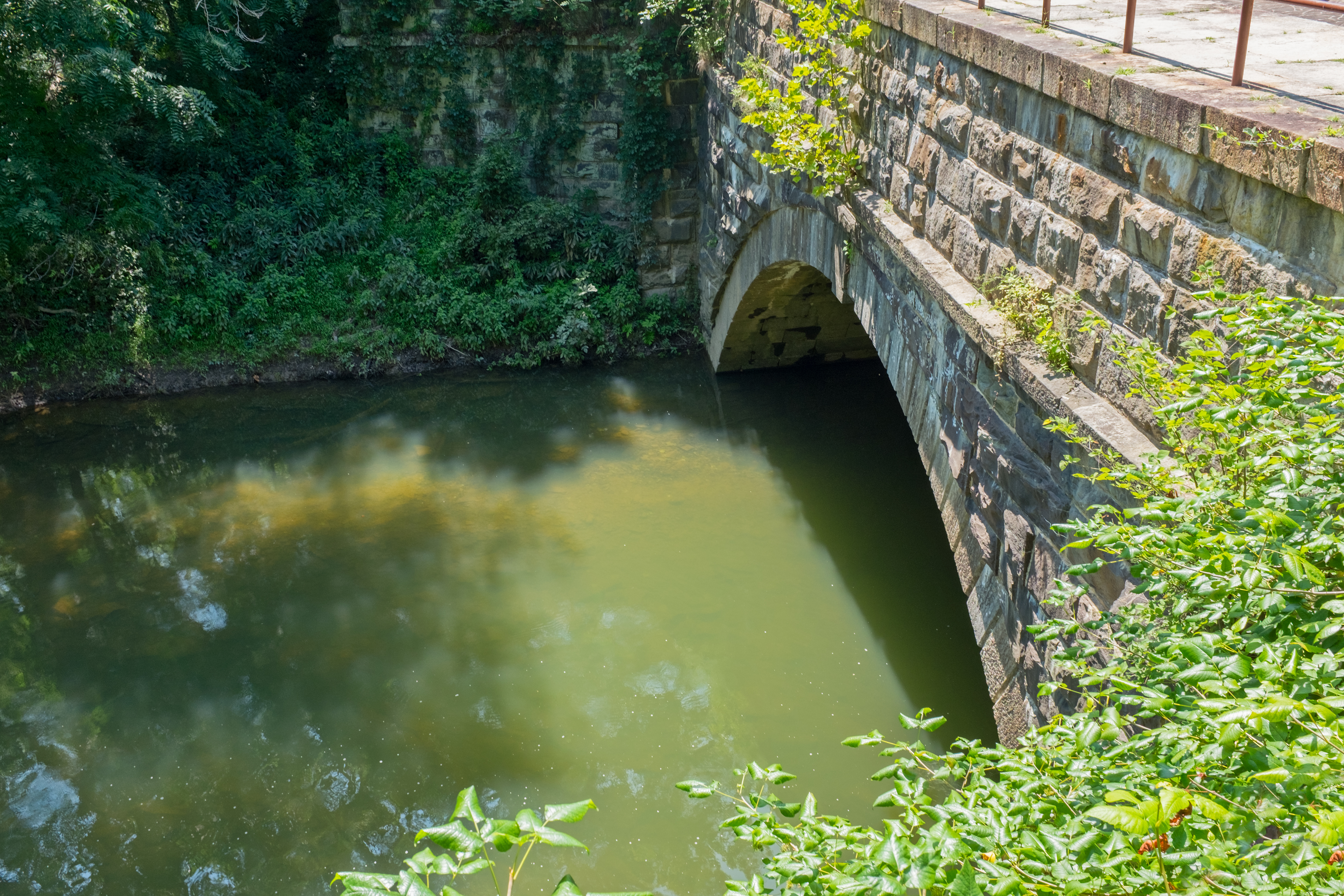 Town Creek, after passing under the Town Creek Aqueduct on the Chesapeake and Ohio Canal. This is the downstream side of the aqueduct.